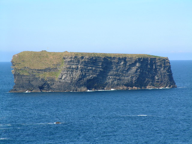 Bishop's Island. Bishop's Island, Kilferagh, Kilkee, Co. Clare, has remains of an oratory and house ascribed to the recluse St Senan.